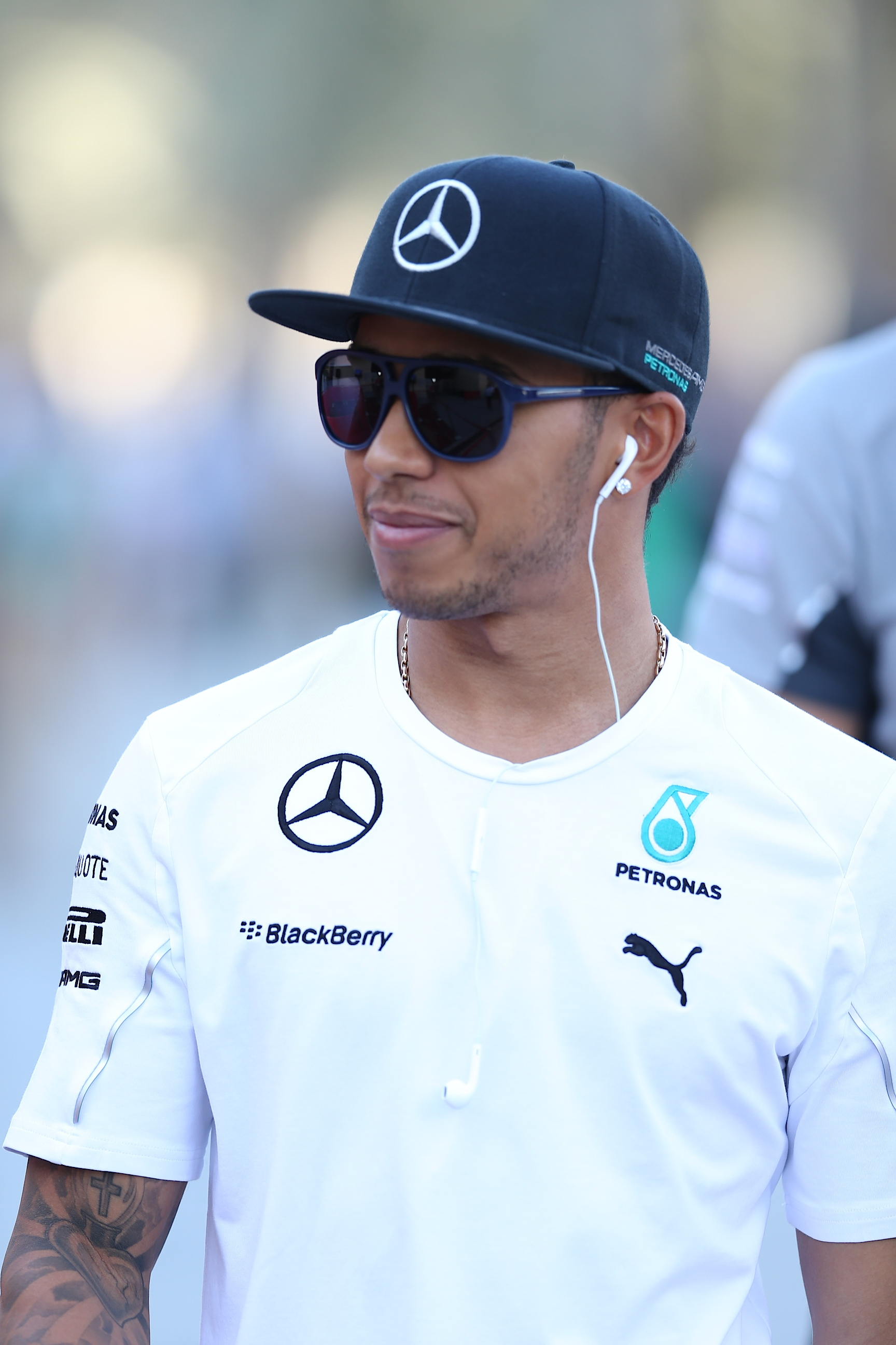 Kingdom of Bahrain